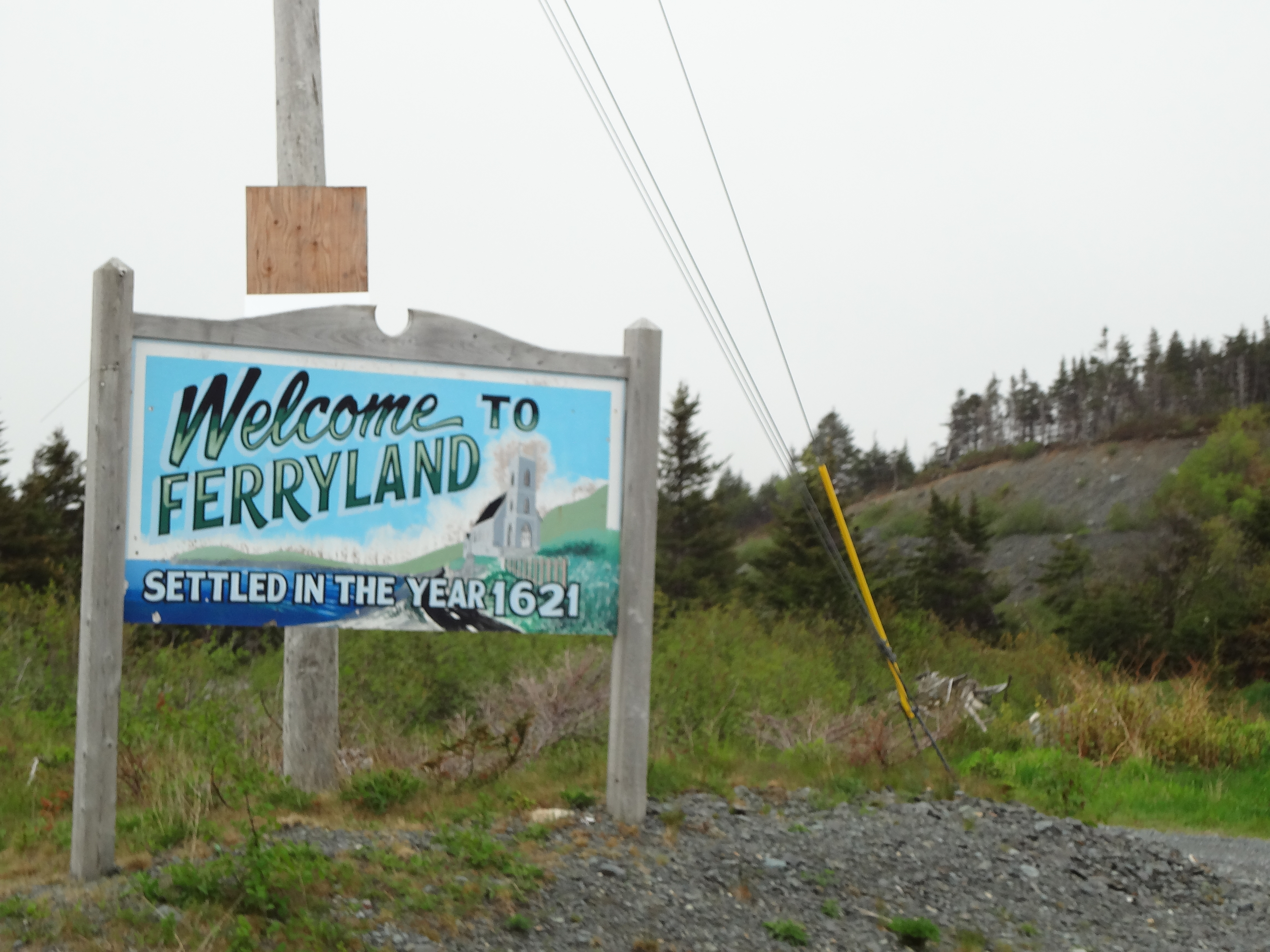 Ferryland, NL